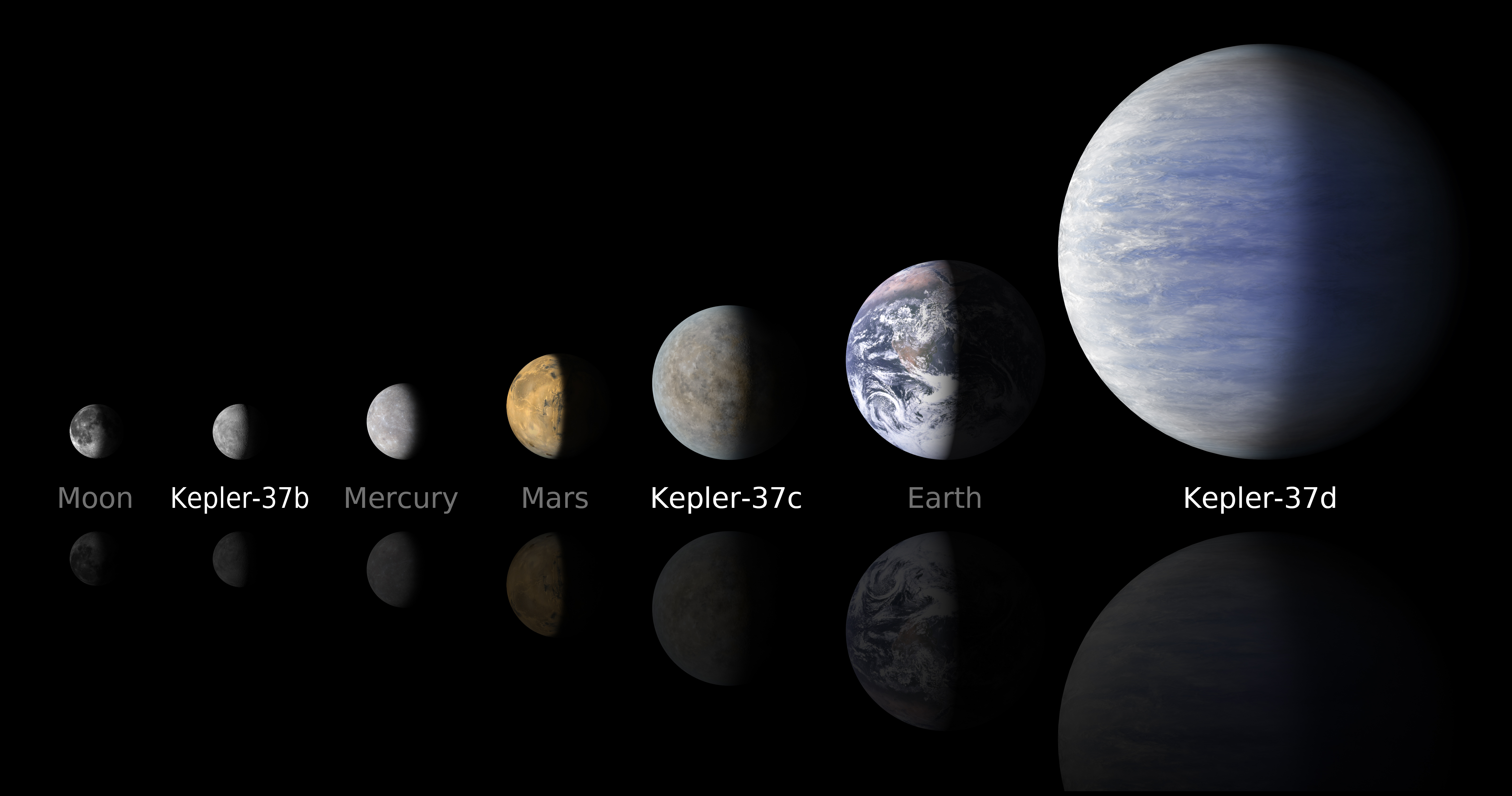 NASA's Kepler mission has discovered a new planetary system that is home to the smallest planet yet found around a star like our sun, approximately 210 light-years away in the constellation Lyra. The line up compares the smallest known planet to the moon and planets in the solar system. Kepler-37b is slightly larger than our moon, measuring about one-third the size of Earth. Kepler-37c, the second planet, is slightly smaller than Venus, measuring almost three-quarters the size of Earth. Kepler-37d, the third planet, is twice the size of Earth. A "year" on these planets is very short. Kepler-37b orbits its host star every 13 days at less than one-third the distance Mercury is to the sun. The other two planets, Kepler-37c and Kepler-37d, orbit their star every 21 and 40 days. All three planets have orbits lying less than the distance Mercury is to the sun, suggesting that they are very hot, inhospitable worlds.